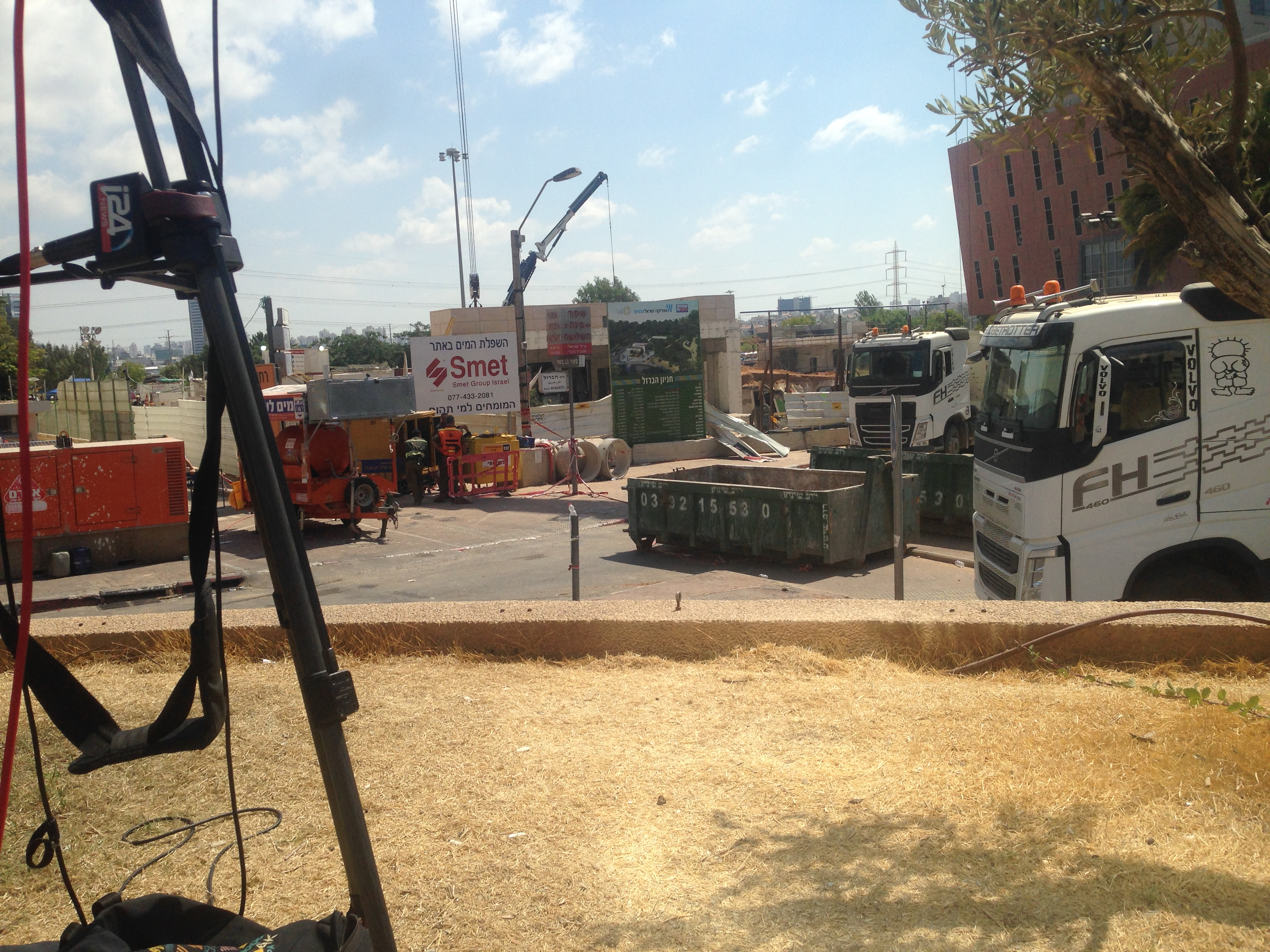 i24News covering the extrication attempts for survivors at HaBarzel Parking Lot collapse site. On the truck in right you can see the Handala symbol